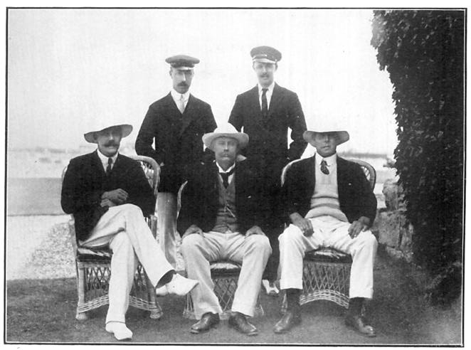 Picture of the crew of the Winning 8 Metre Cobweb